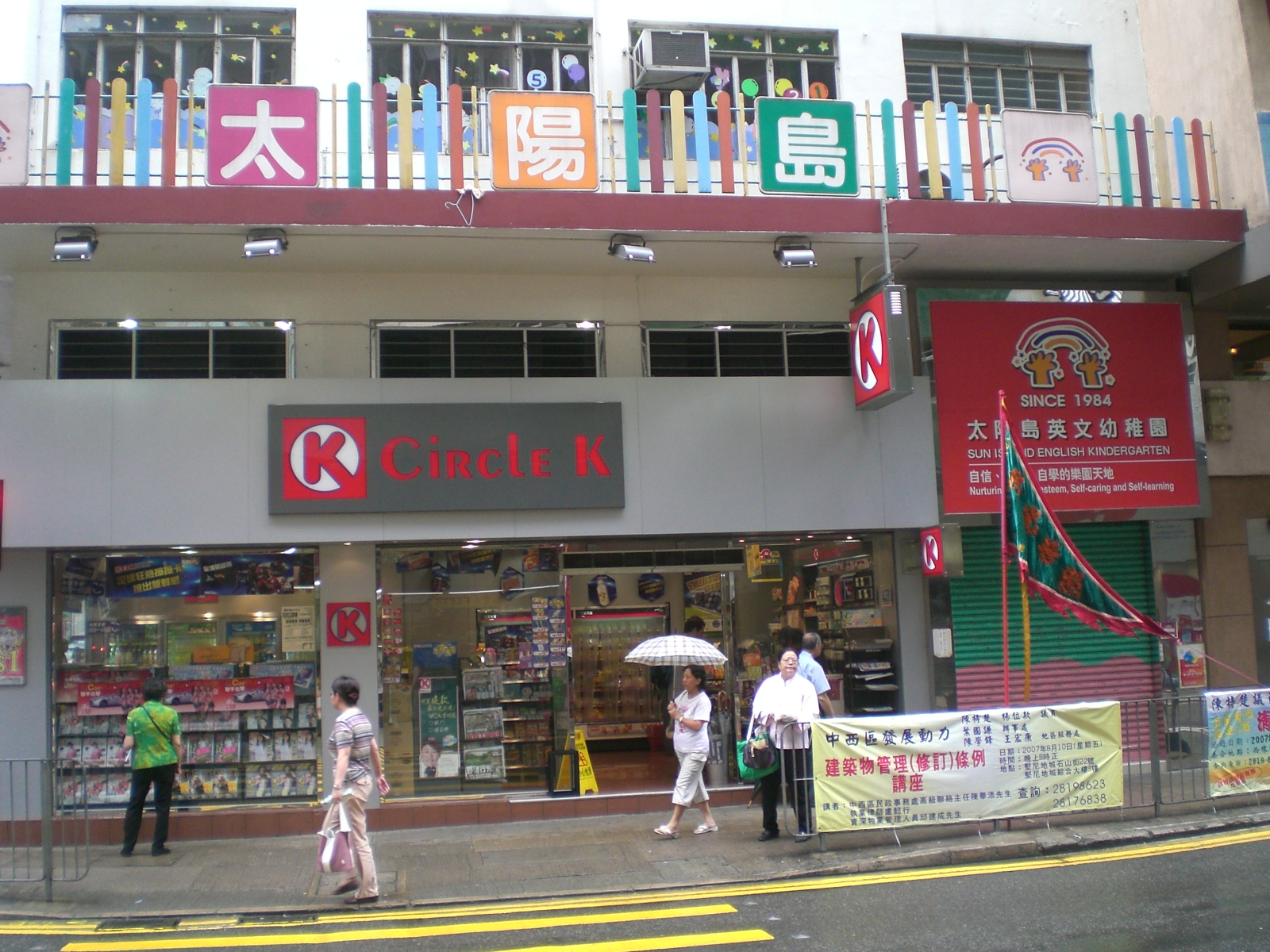 Circle K, OK便利店.